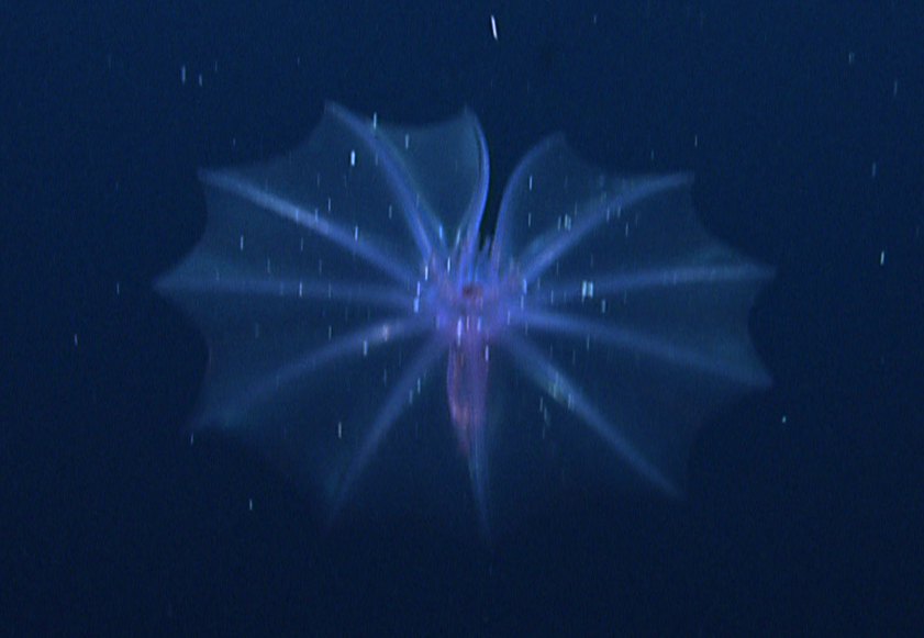 The only pelagic echinoderm : Pelagothuria natatrix (a swimming sea cucumber), observed in deep water off Galapagos islands.